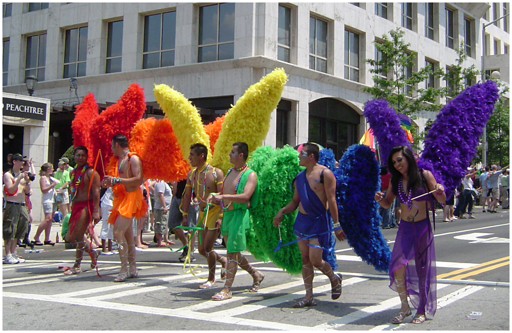 Rainbow fairies! Pride Parade, Atlanta, Georgia (2007)